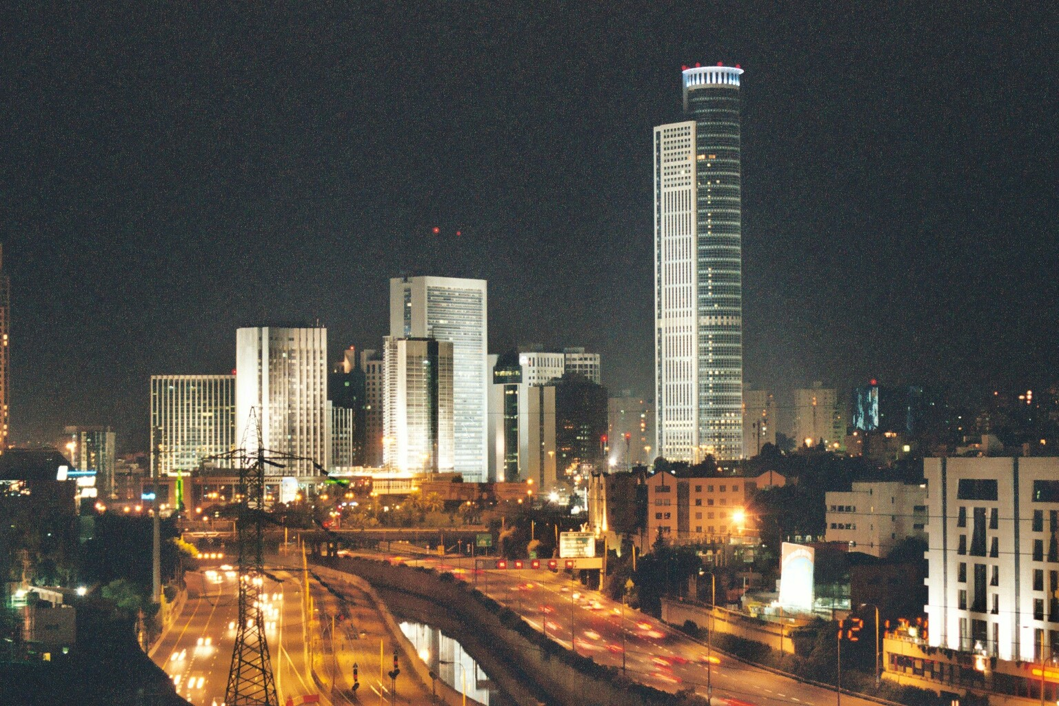 Tel Aviv, Israel At Night. W. Fong, Dec 2003